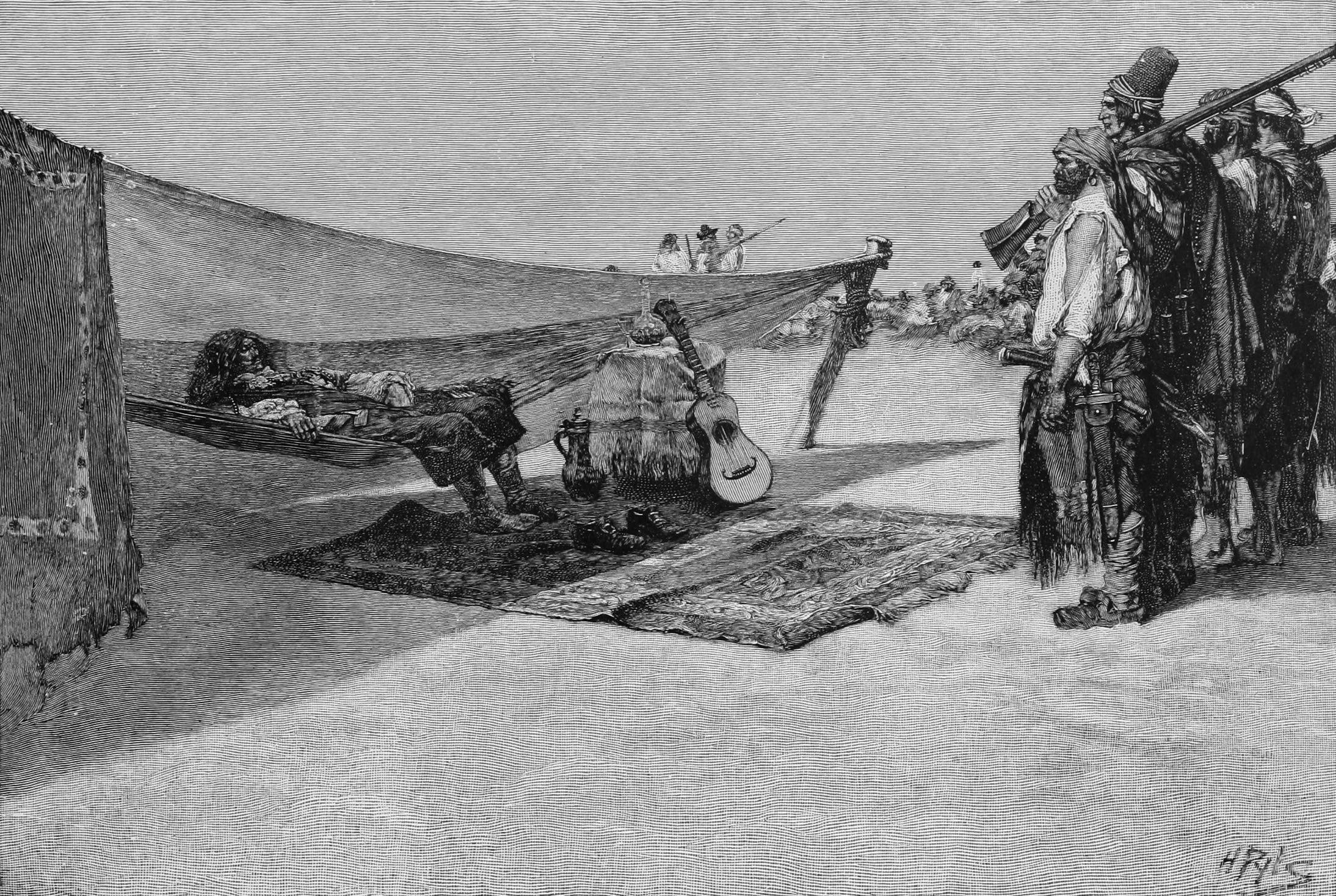 Henry Morgan Recruiting for the Attack: this was originally published in Pyle, Howard (August–September 1887). "Buccaneers and Marooners of the Spanish Main". Harper's Magazine.